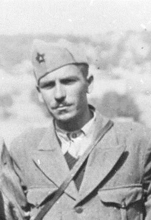 Ante Kronja